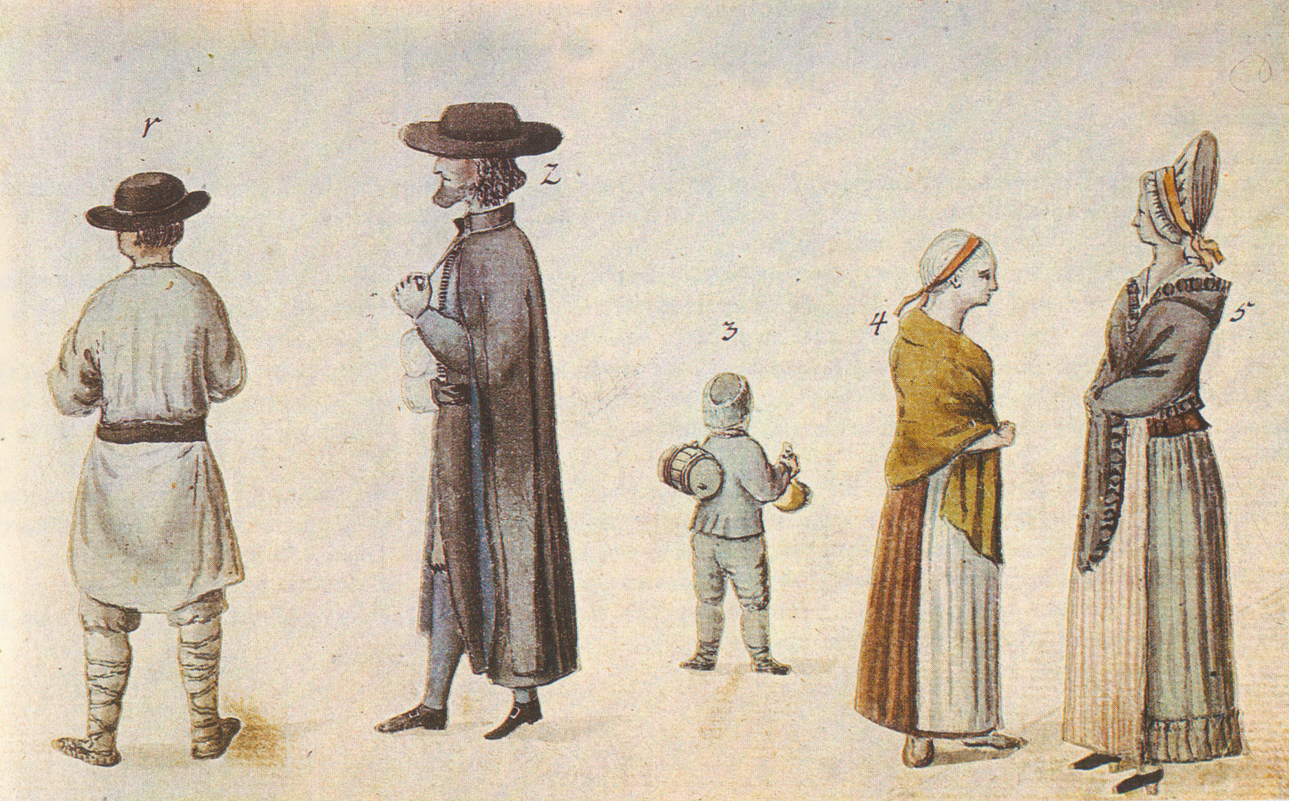 1. Polish burlak or a simple seasonal worker, such males arived on barges in Spring to get work in Summer 2. Polish Jew trader. who is selling linen 3. Latvian farmer boy selling milk 4. Latvian Maid 5. German housekeeper